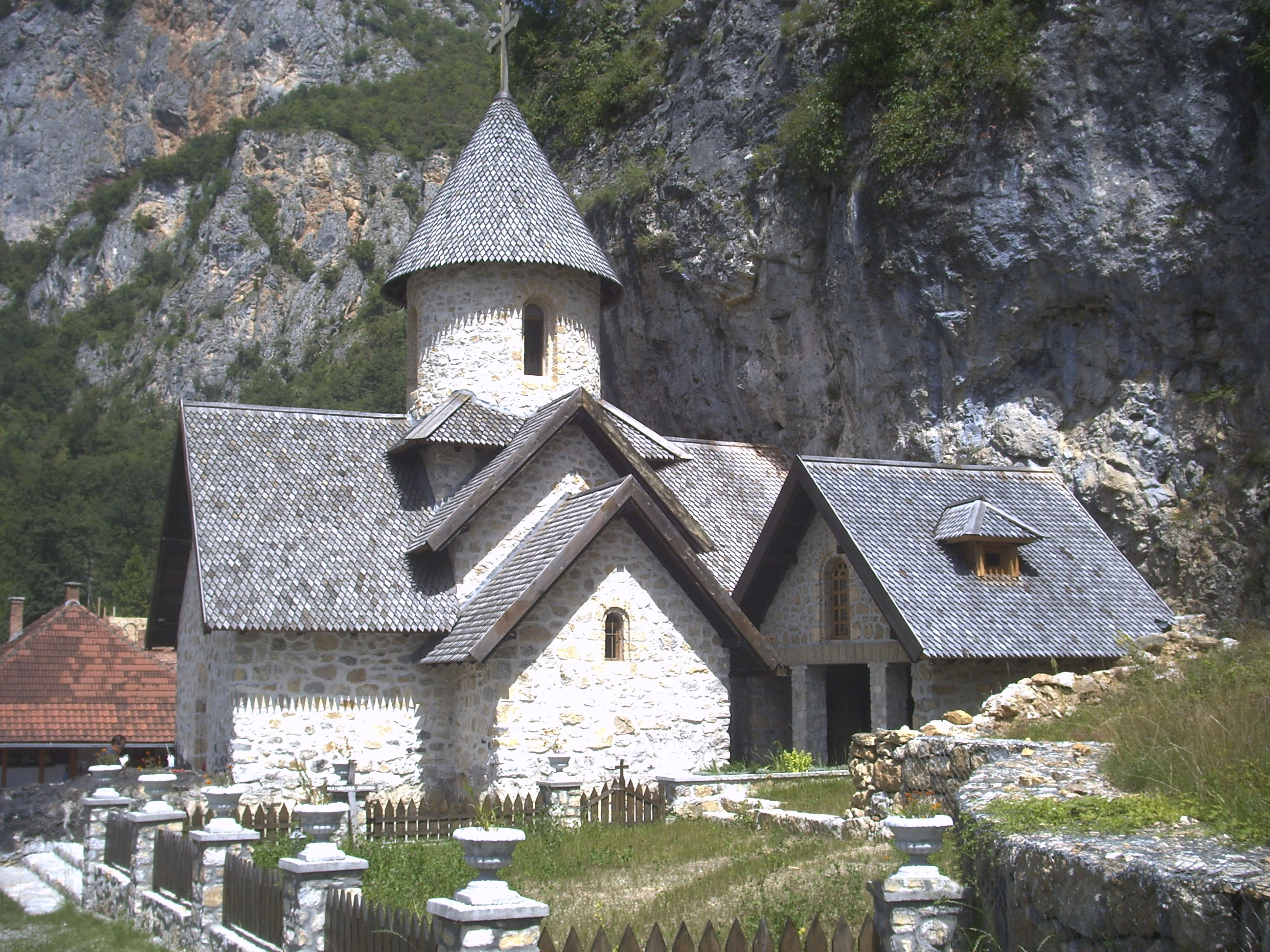 Kumanica monastery, near Sjenica, Serbia